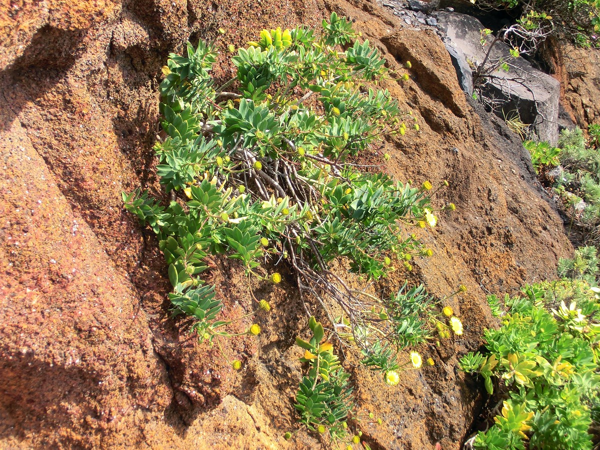 Vieraea laevigata, habitat. NW Tenerife, Punta de Lerma (W of Punta del Fraile), steep rocks above coastal street, ca. 100 m above sea level.